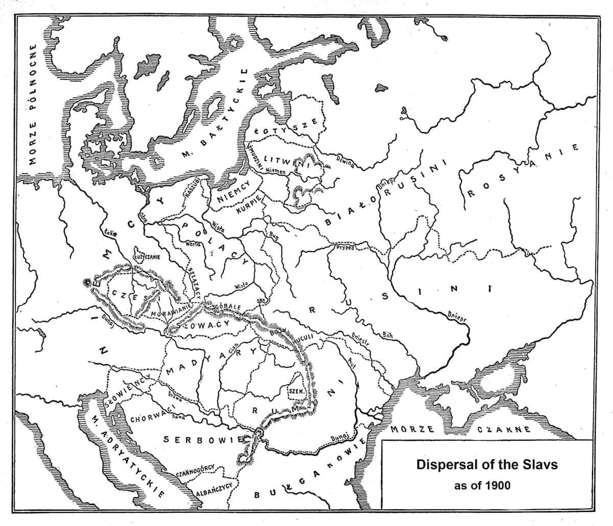 The Historical Atlas of Poland was compiled by Jozef Nowina Sroczynski (Gimnazjum teacher); the initials C.K. indicate he taught at a school in the Austrian Empire, presumably in Galicia]. The atlas was published by W. Dyniewicz, Chicago, IL - approximately 1910.